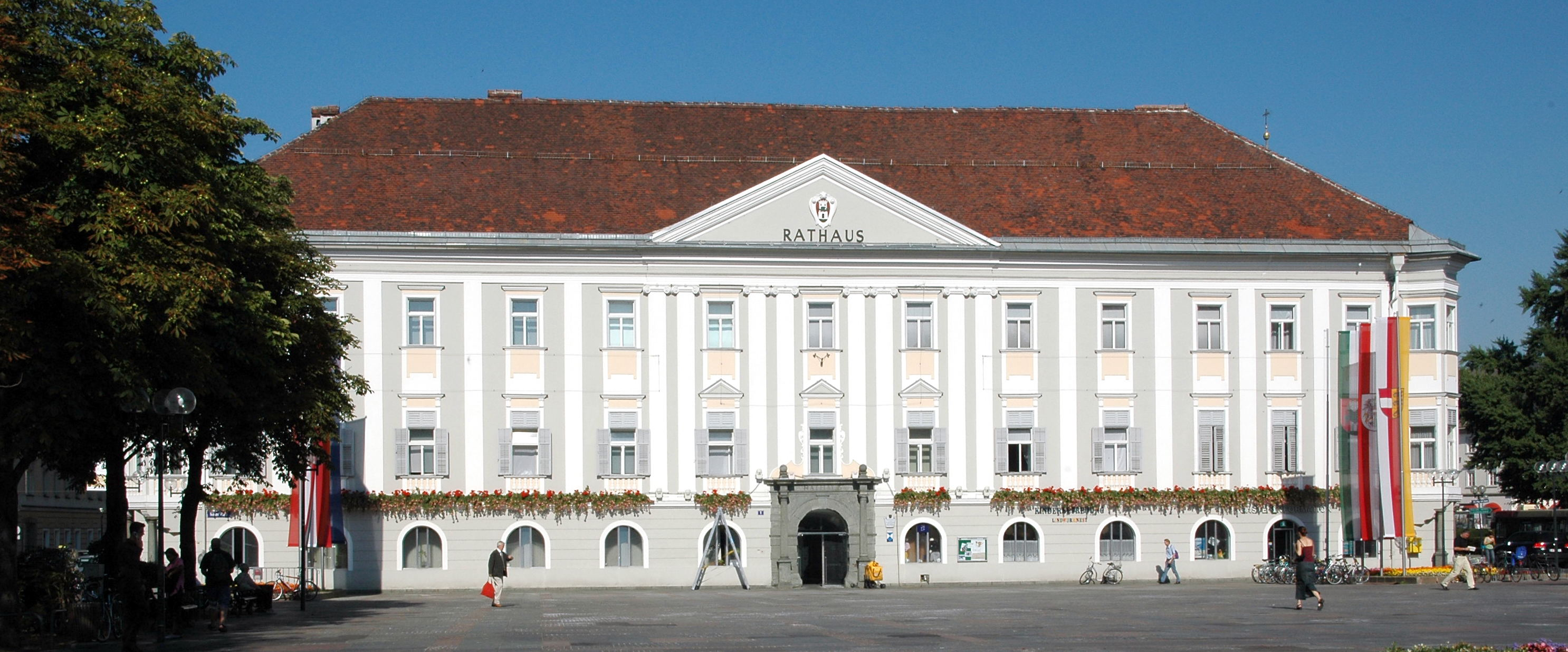 Town hall on the “Neuer Platz” (new square) situated in the “Innere Stadt” (inner city) of the Carinthian capital Klagenfurt, Carinthia, Austria, EU